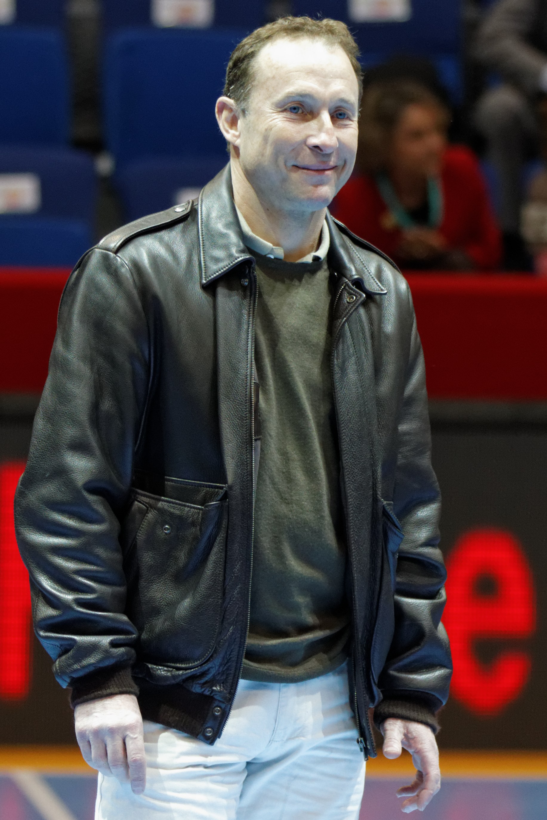 Final of the Women's handball French cup 2013. Jean-Pierre Papin's virtual kick off.